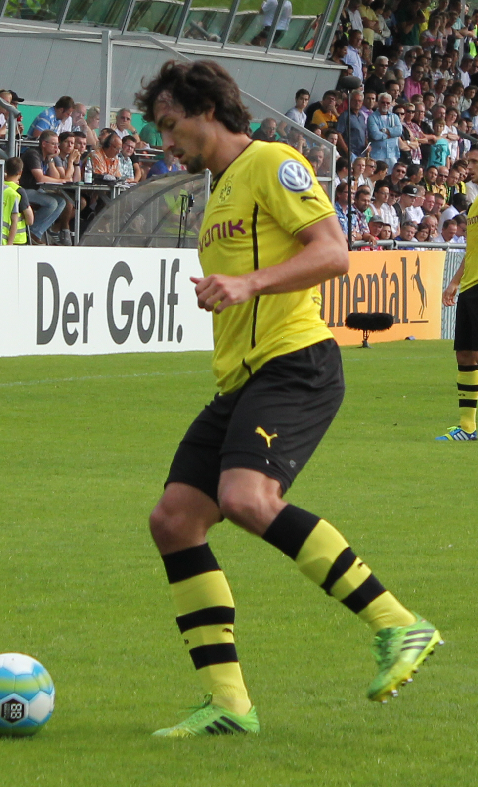 Mats Hummels during a match in Wilhelmshaven 2013